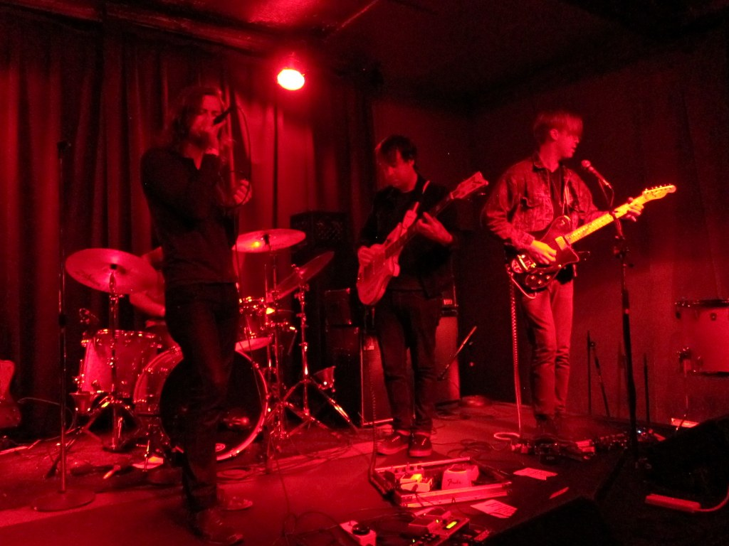 Sleepy Sun performing at Moe’s Original Bar B Que, Englewood CO in 2013